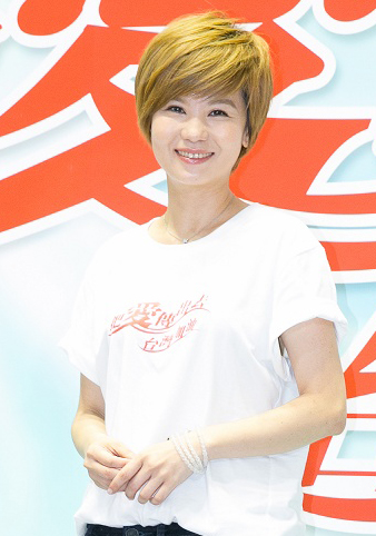 Huang Yee-ling at a fundraising event for 2014 Kaohsiung gas explosions